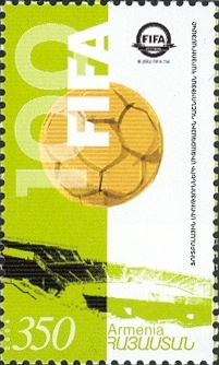 Stamp of Armenia